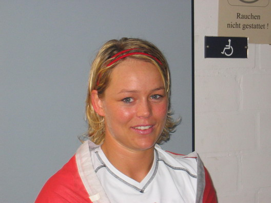 A head shot of the Norwegian women's football player, Leni Larsen Kaurin.